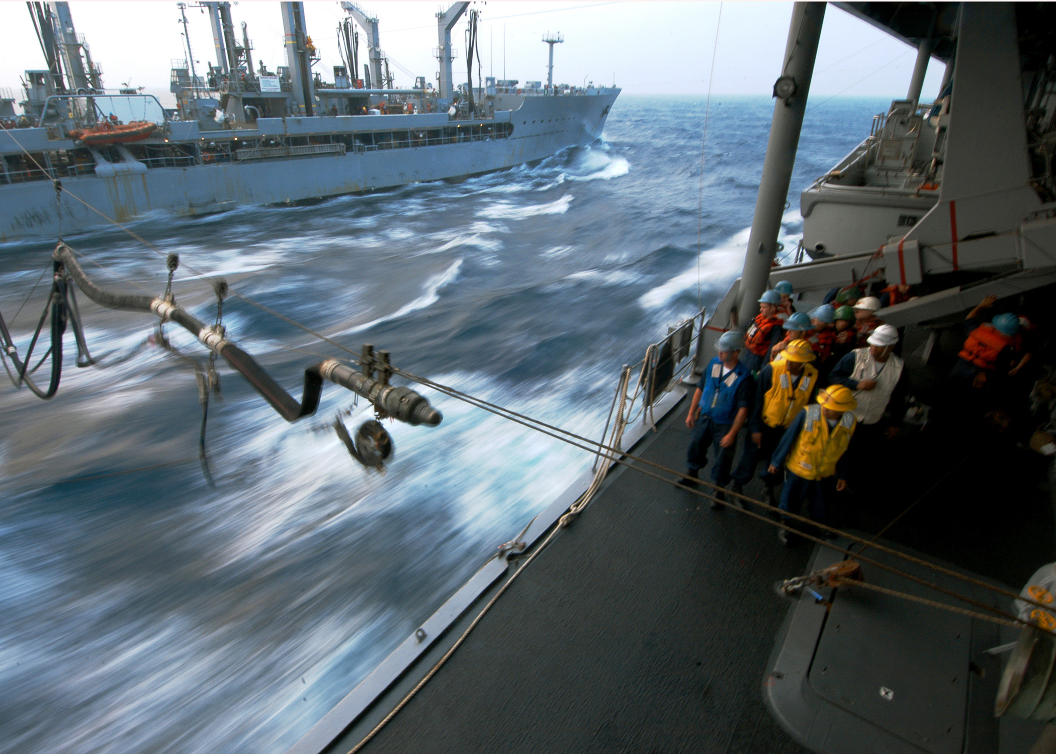 South China Sea (March 19, 2006) – Amphibious command ship USS Blue Ridge (LCC 19) Sailors look on as a refueling probe crosses over the South China Sea, during a replenishment at sea (RAS) with the Military Sealift Command (MSC) underway replenishment oiler USNS Walter S. Diehl (T-AO 193). Blue Ridge, the 7th Fleet command ship, is currently underway for a regularly scheduled deployment throughout the 7th Fleet area of responsibility. U.S. Navy photo by Journalist Seaman Marc Rockwell-Pate (RELEASED)